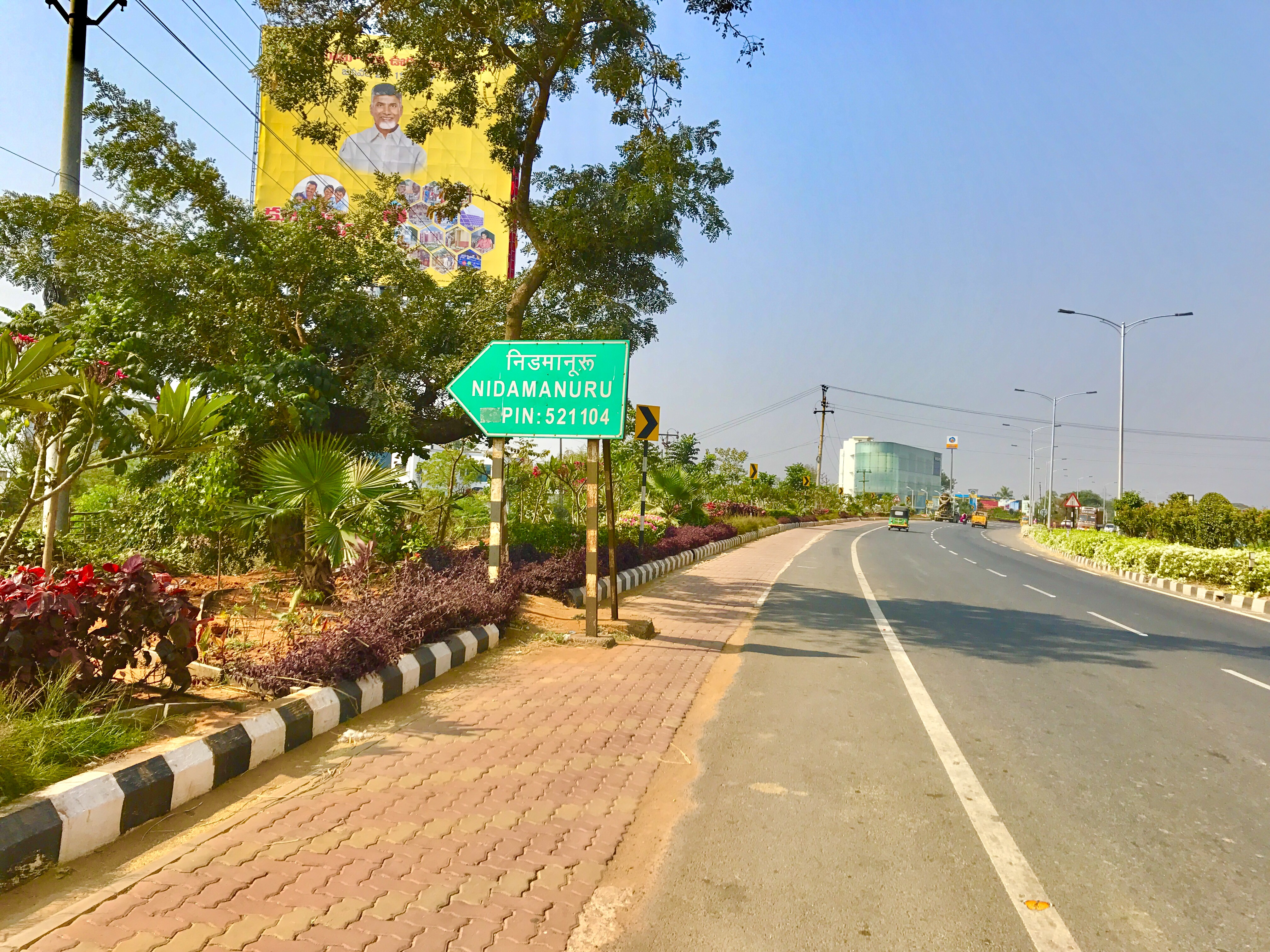 Nidamanuru board on AH-45